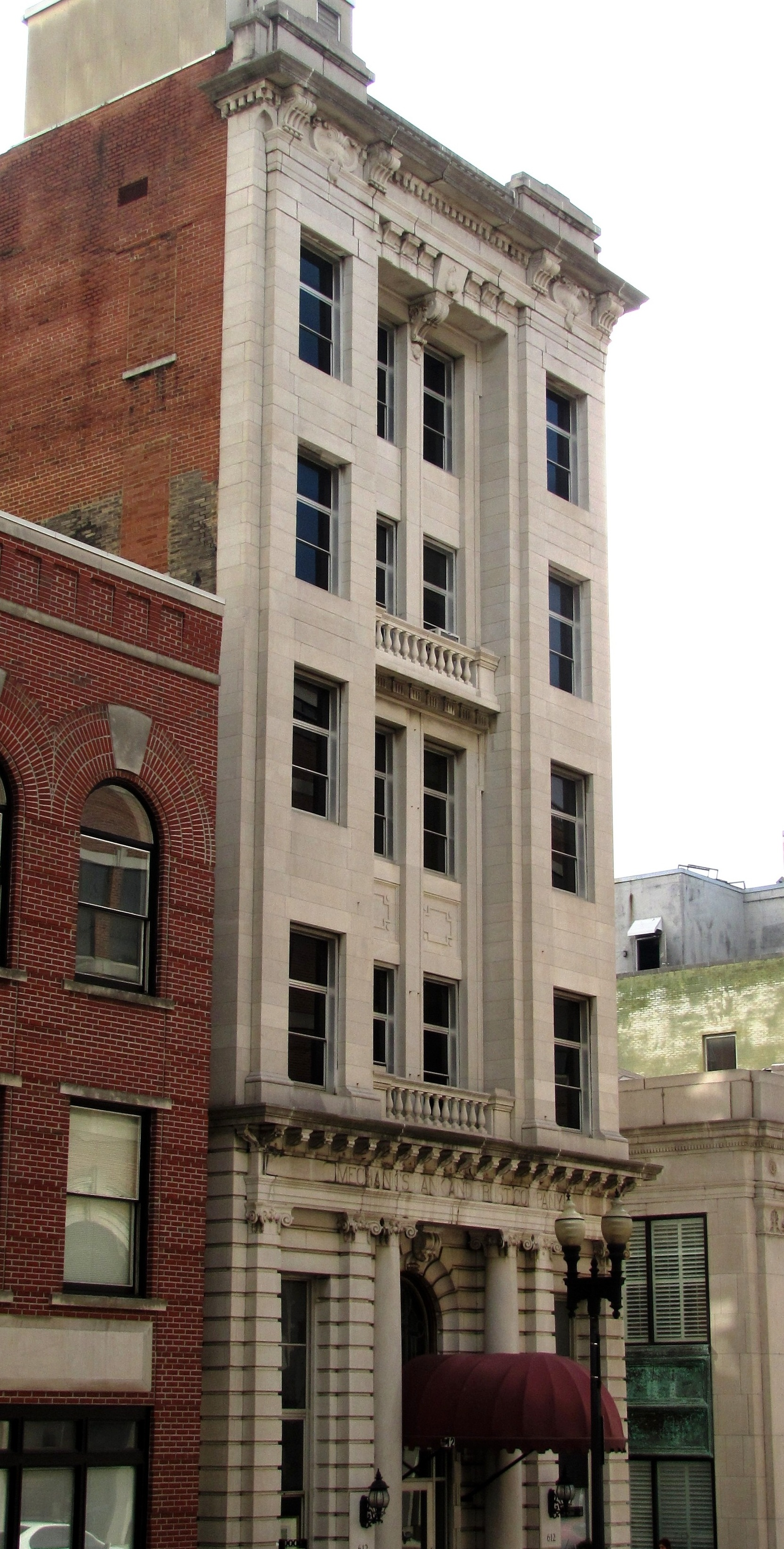 The NRHP-listed Mechanics Bank and Trust Building in Knoxville, Tennessee, USA.